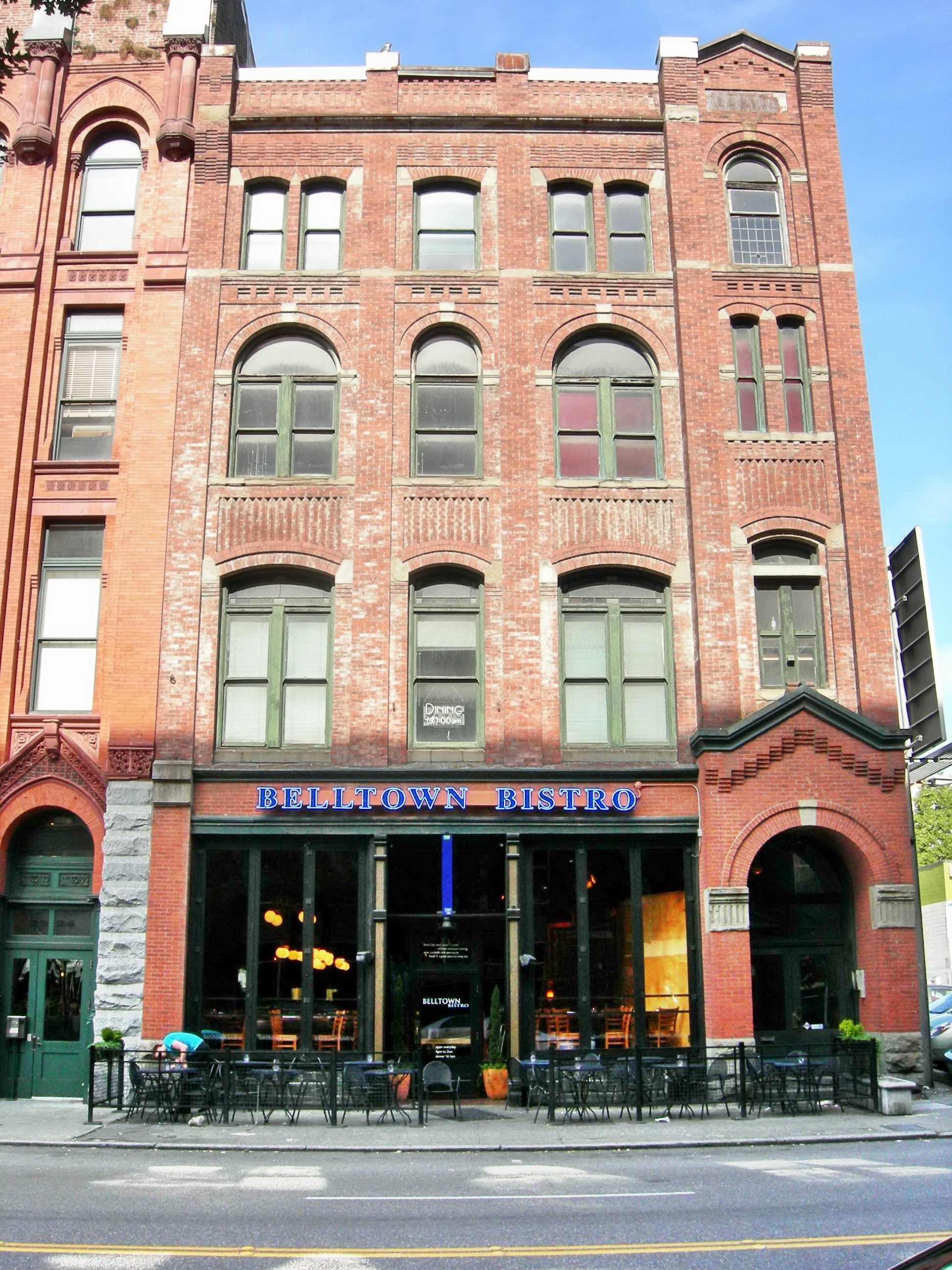 Barnes Building, also known as Ionic Masonic Hall No. 7, 2320-2322 1st Ave, Belltown, Seattle, Washington. Designed by William Boone in 1889 and built 1890. On the National Register of Historic Places, ID #75001853. At left, a portion of the Austin Bell Building is visible.